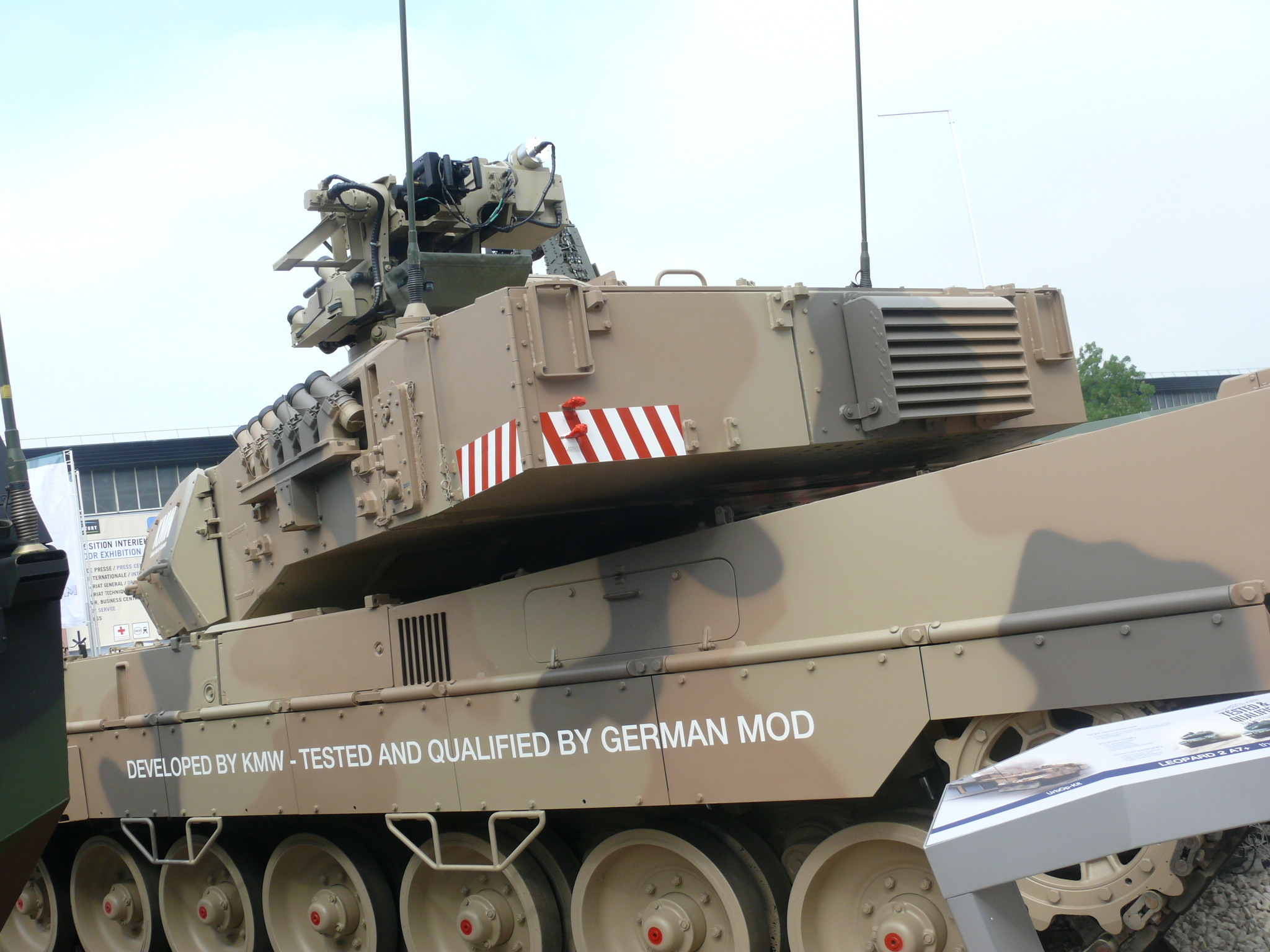 Leopard 2 A7